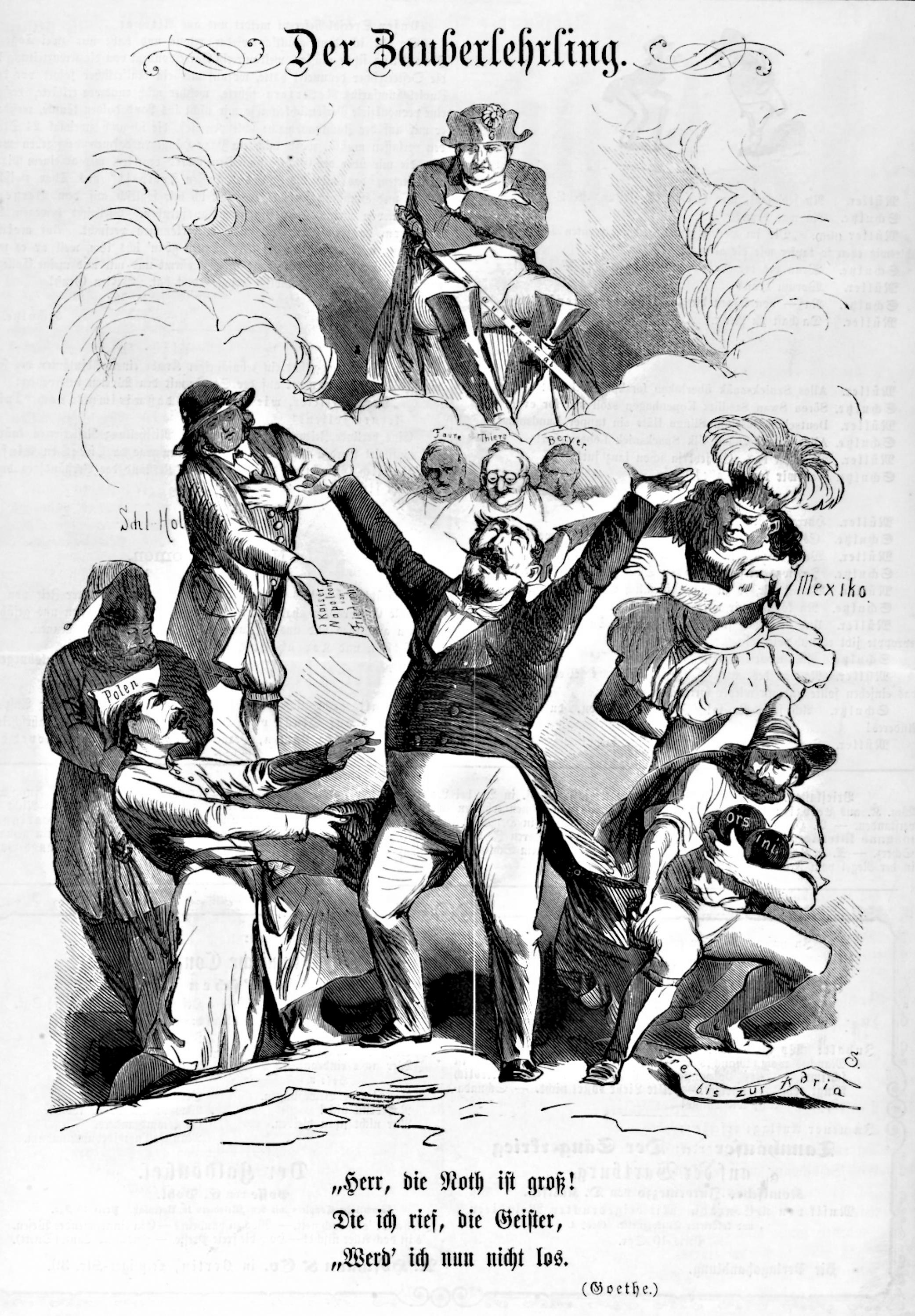 Karikatur, Kladderadatsch